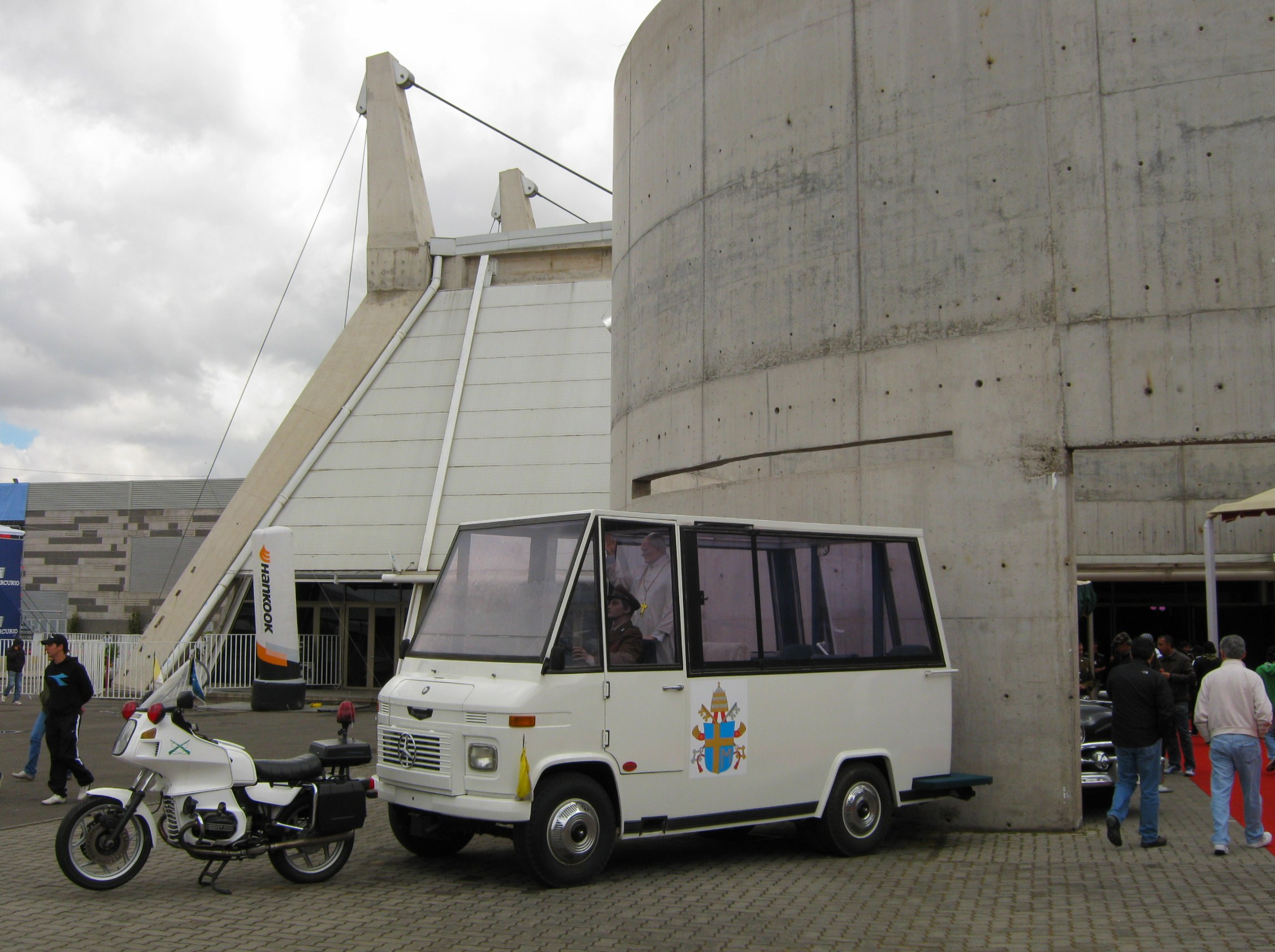 Popemobile used during John Paul II's visit to Chile (1987) at 2010 Santiago Motorshow. Built in Chile by Metalpar in 1987, it was display along one of the same Carabineros' motorcycles that originally escorted the vehicle. Based on Mercedes-Benz van.